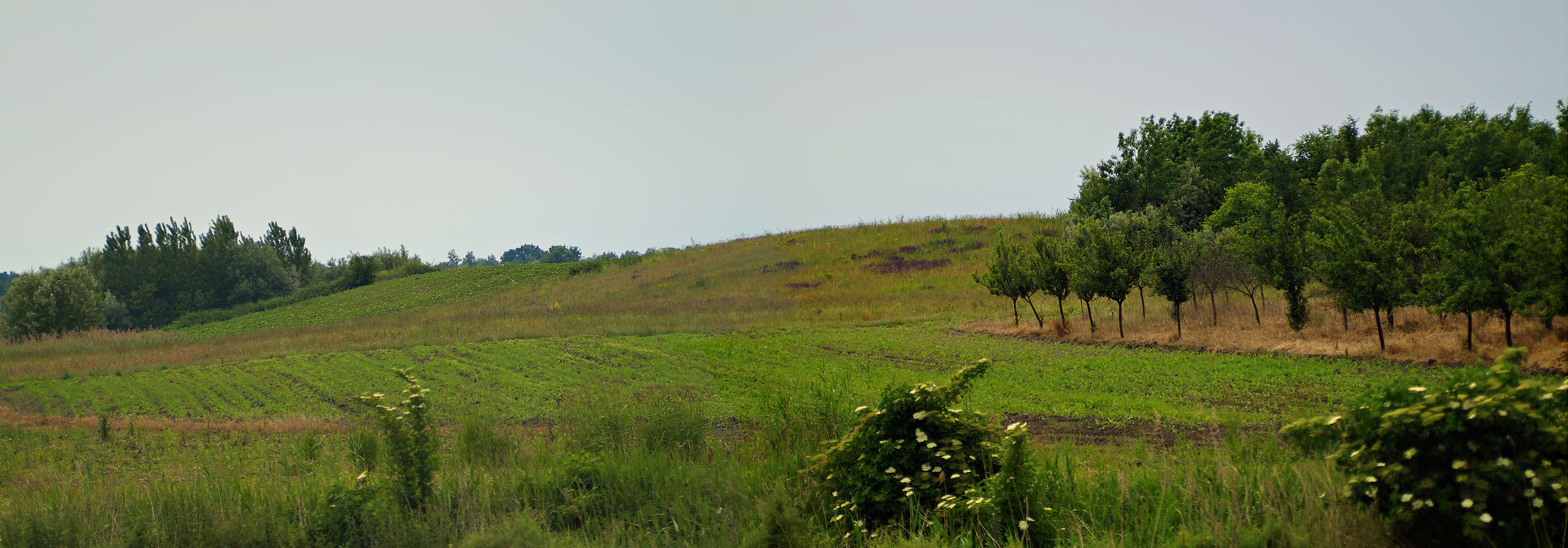 Kurgan "Kamaraš" near Horgoš in Vojvodina, Serbia. Viewed from east. Code: BAC431